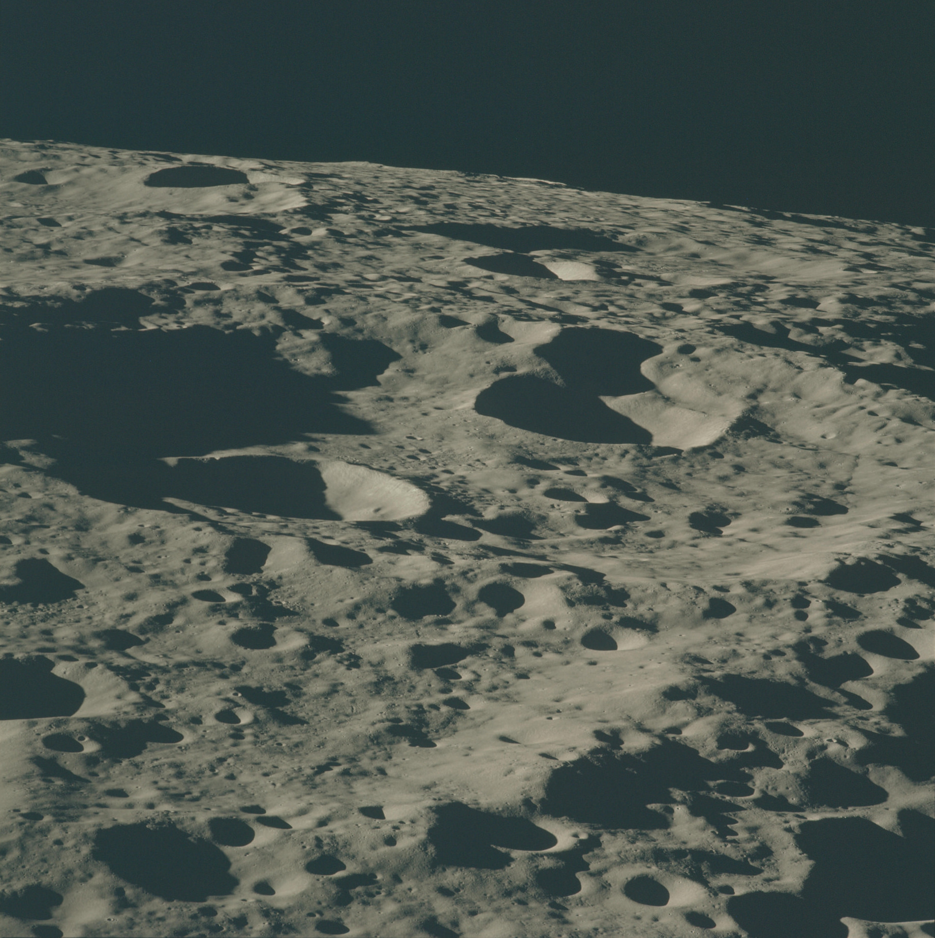 Description: Kondratyuk crater on the far side of the Moon. NASA image AS15-97-13177. Size: 400 × 399 pixels. Image reduced in size 50% from original. New version 1840 x1846.